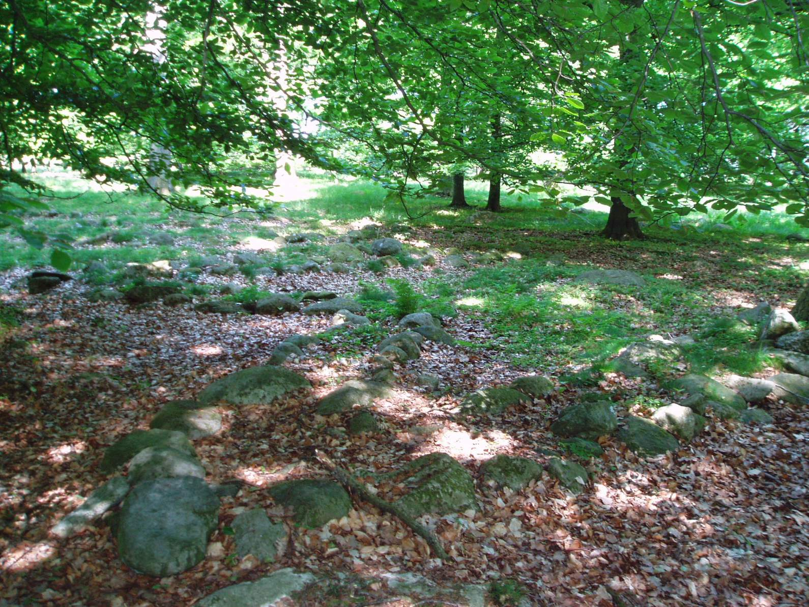 Carl XI stones, Östra Sallerup, Scania, Sweden